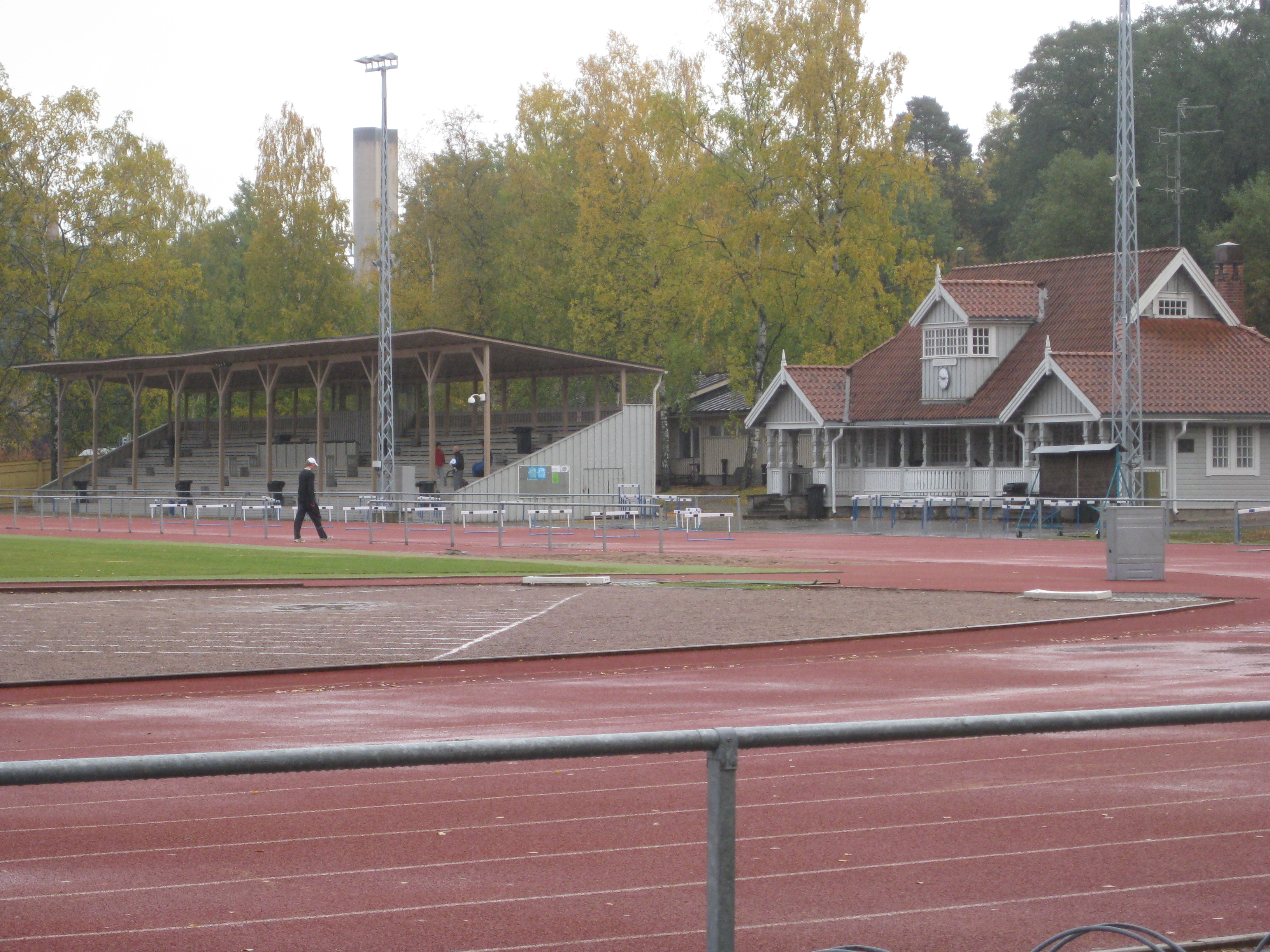 Eläintarha stadium in Töölö, Helsinki, Finland